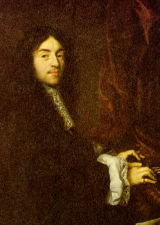 Charles Couperin (1638 - † 1679).